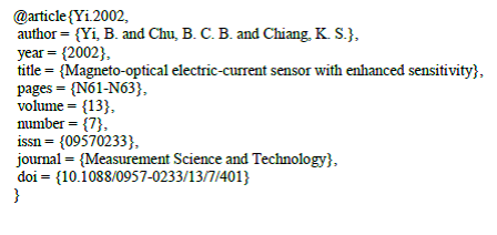 example bibtex citation2